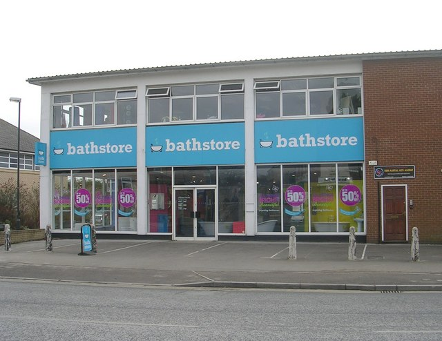 bathstore - York Road